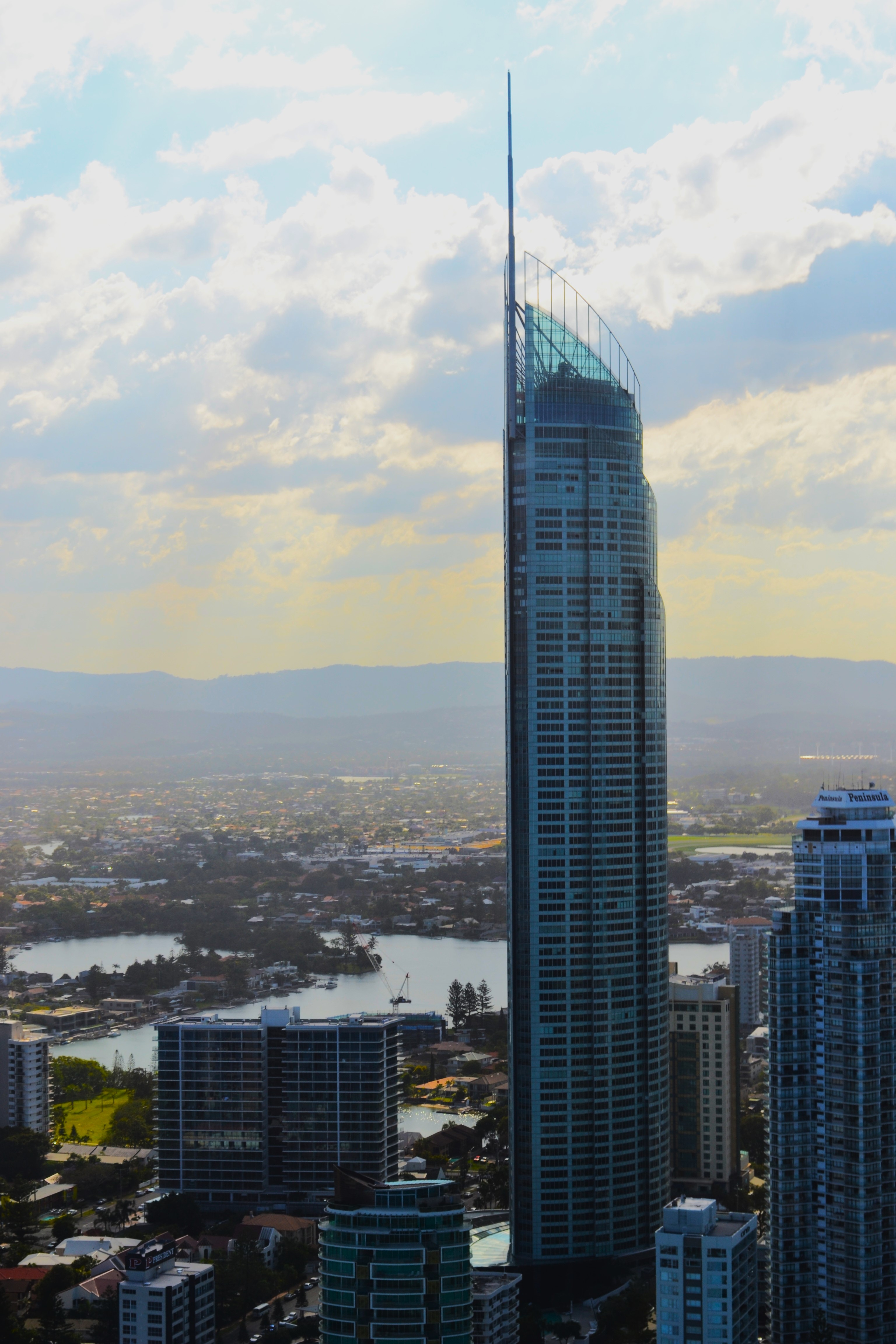 Taken from air view.